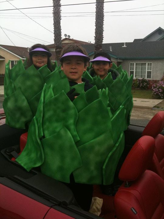 Children wearing artichoke costumes in Castroville's Artichoke Parade.